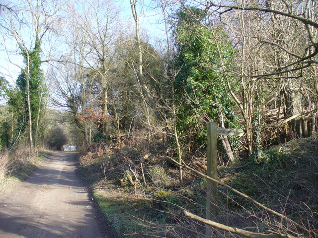 Piney Copse Byway passing small piece of woodland east of Gomshall.